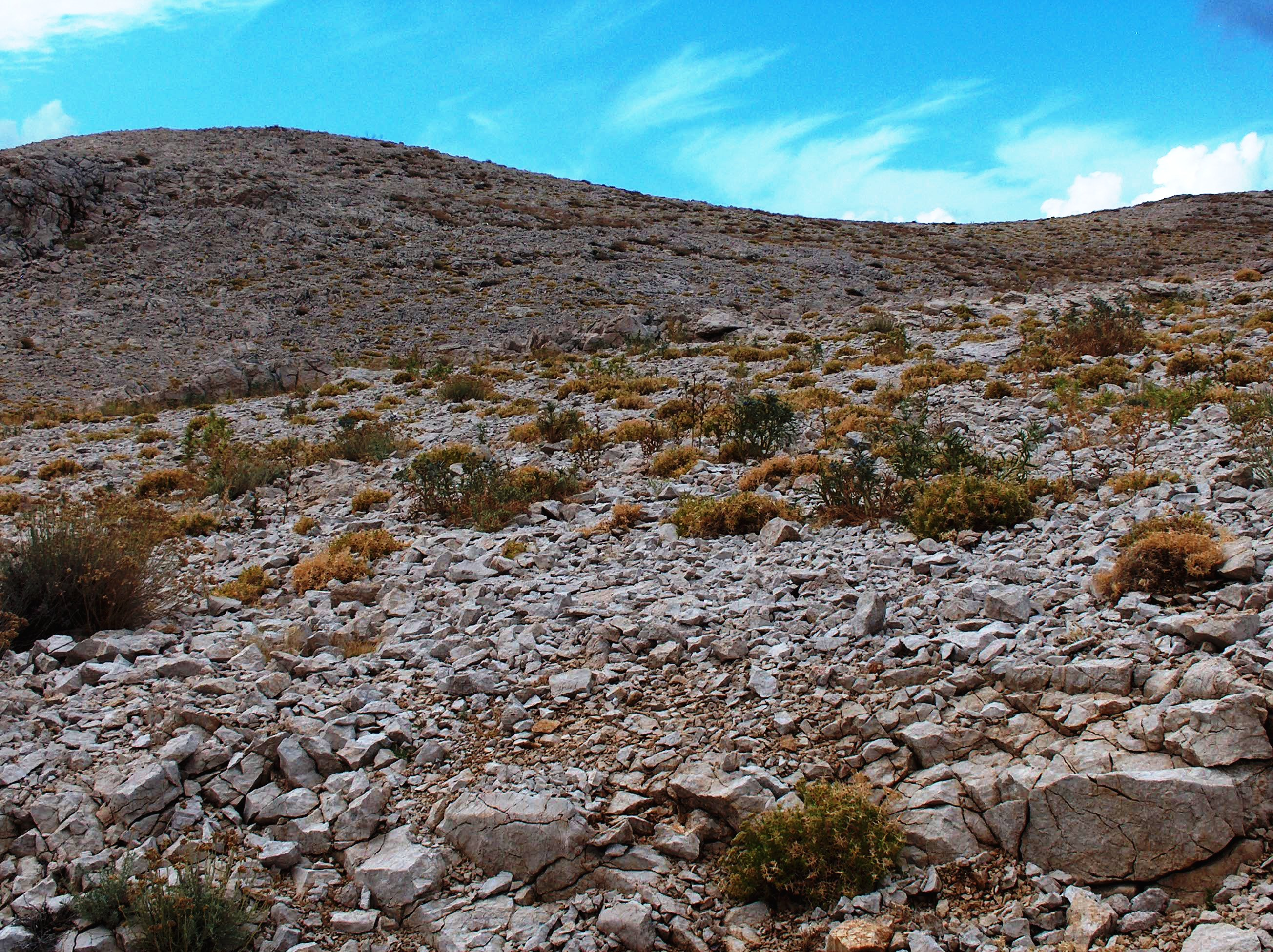 Isle of Rab, Croatia - The "Flora"